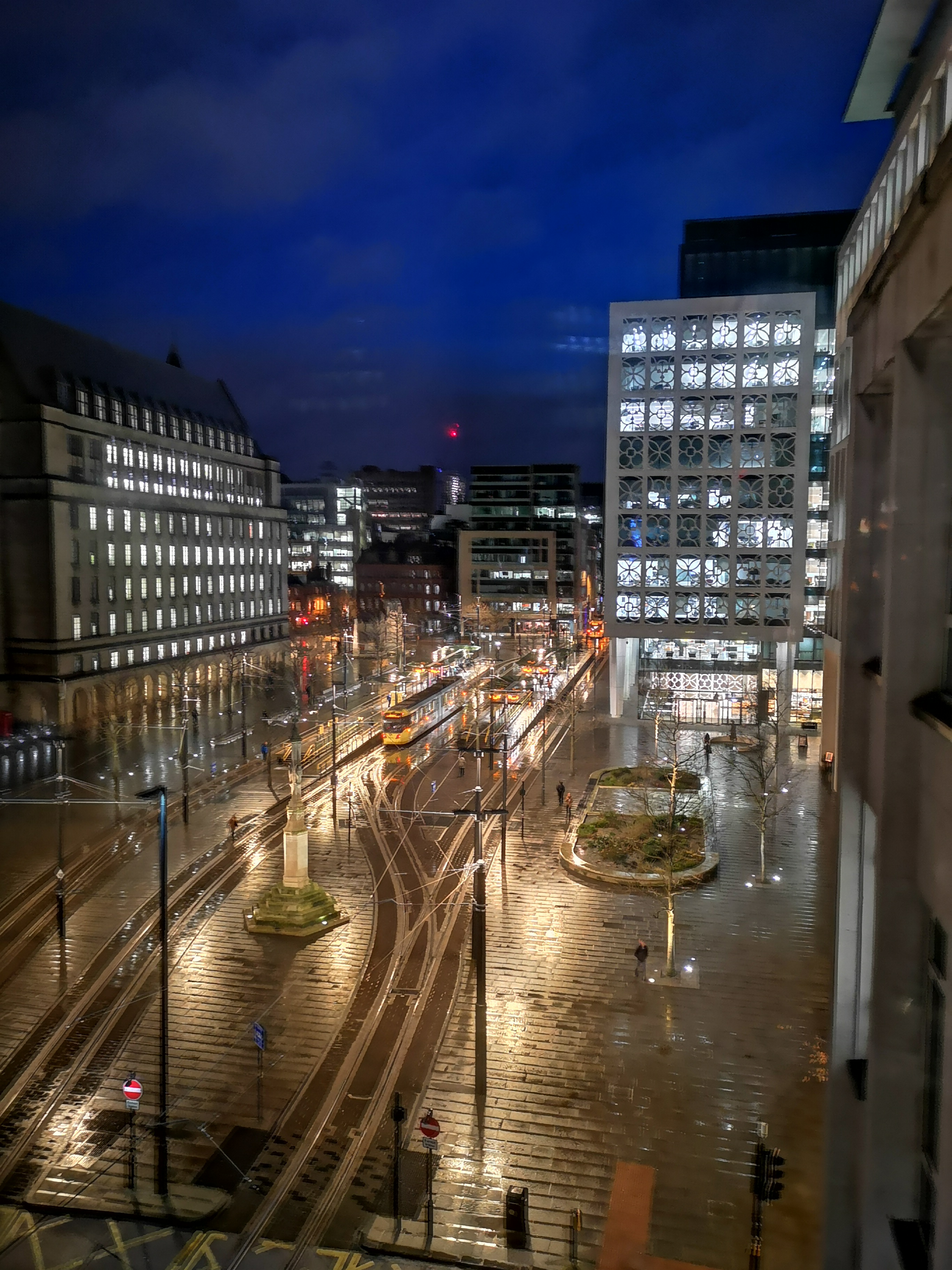 Night View of St Peters Square